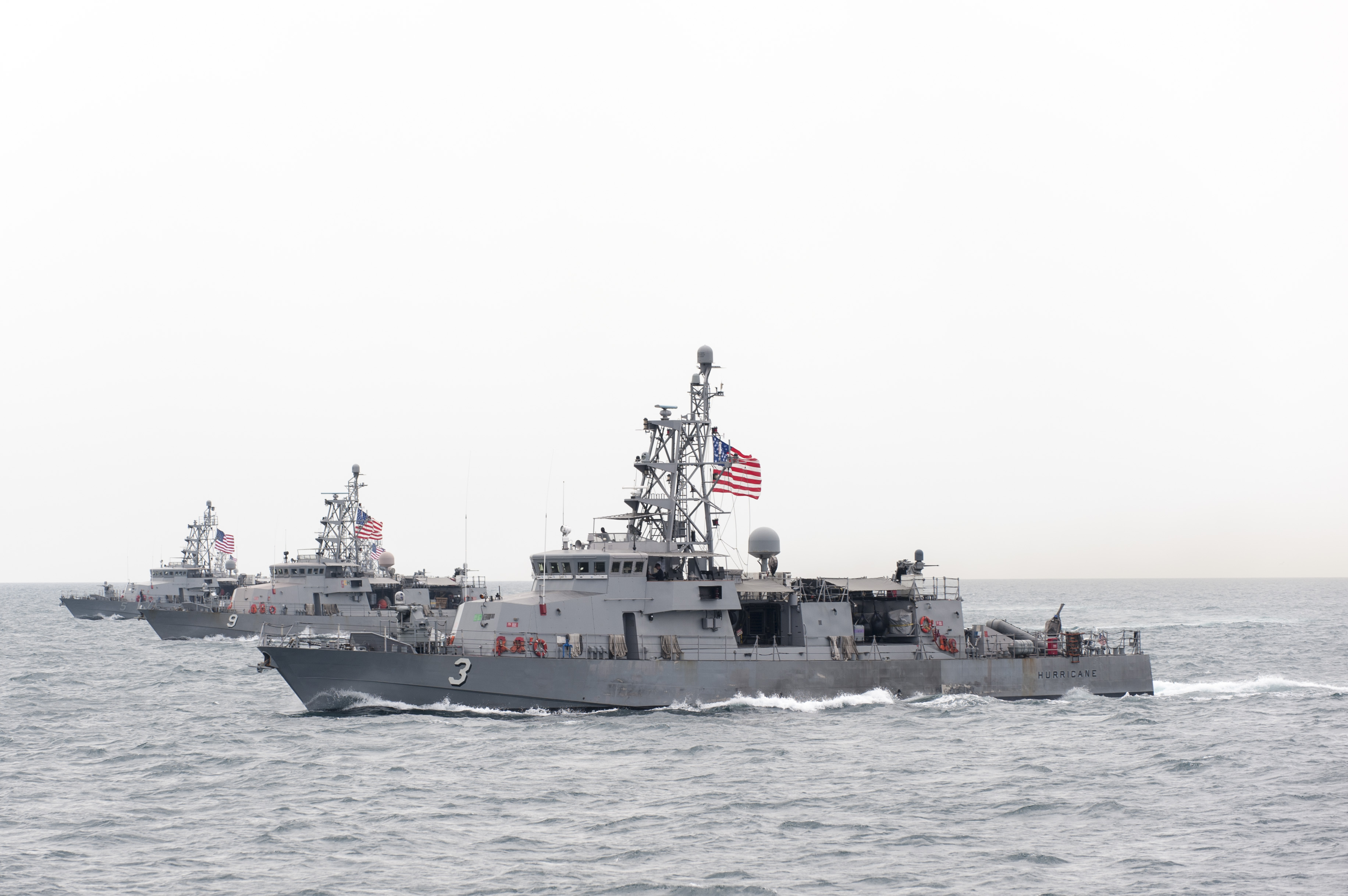 The U.S. Navy Cyclone-class coastal patrol ships assigned to Patrol Coastal Squadron 1 (PCRON 1), USS Hurricane (PC-3), USS Chinook (PC-9) and USS Typhoon (PC-5), transit in formation during a divisional tactics exercise in the Persian Gulf. PCRON 1 was deployed to the U.S. 5th Fleet area of responsibility supporting maritime security operations and theater security cooperation efforts.